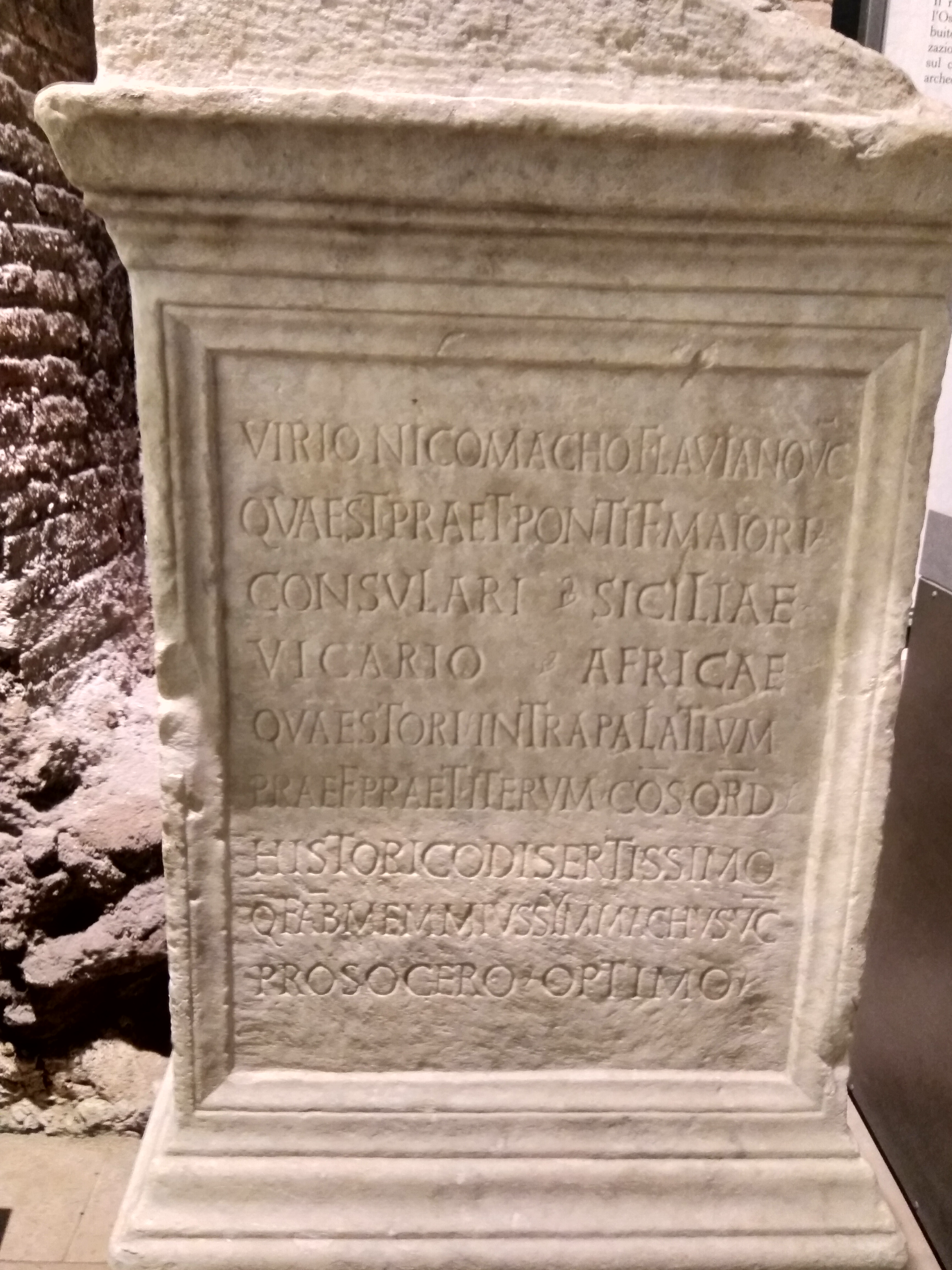 CIL 06, 01782 (p 3174, 3814, 4760) = D 02947 = AE 2000, +00136